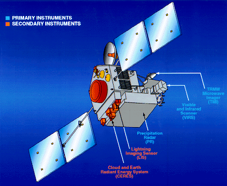 This drawing shows the location of the CERES instrument on the TRMM satellite. CERES and the Lightning Imaging Sensor are two Earth Observation System instruments which were added to the primary TRMM payload to complement the goals of the mission.